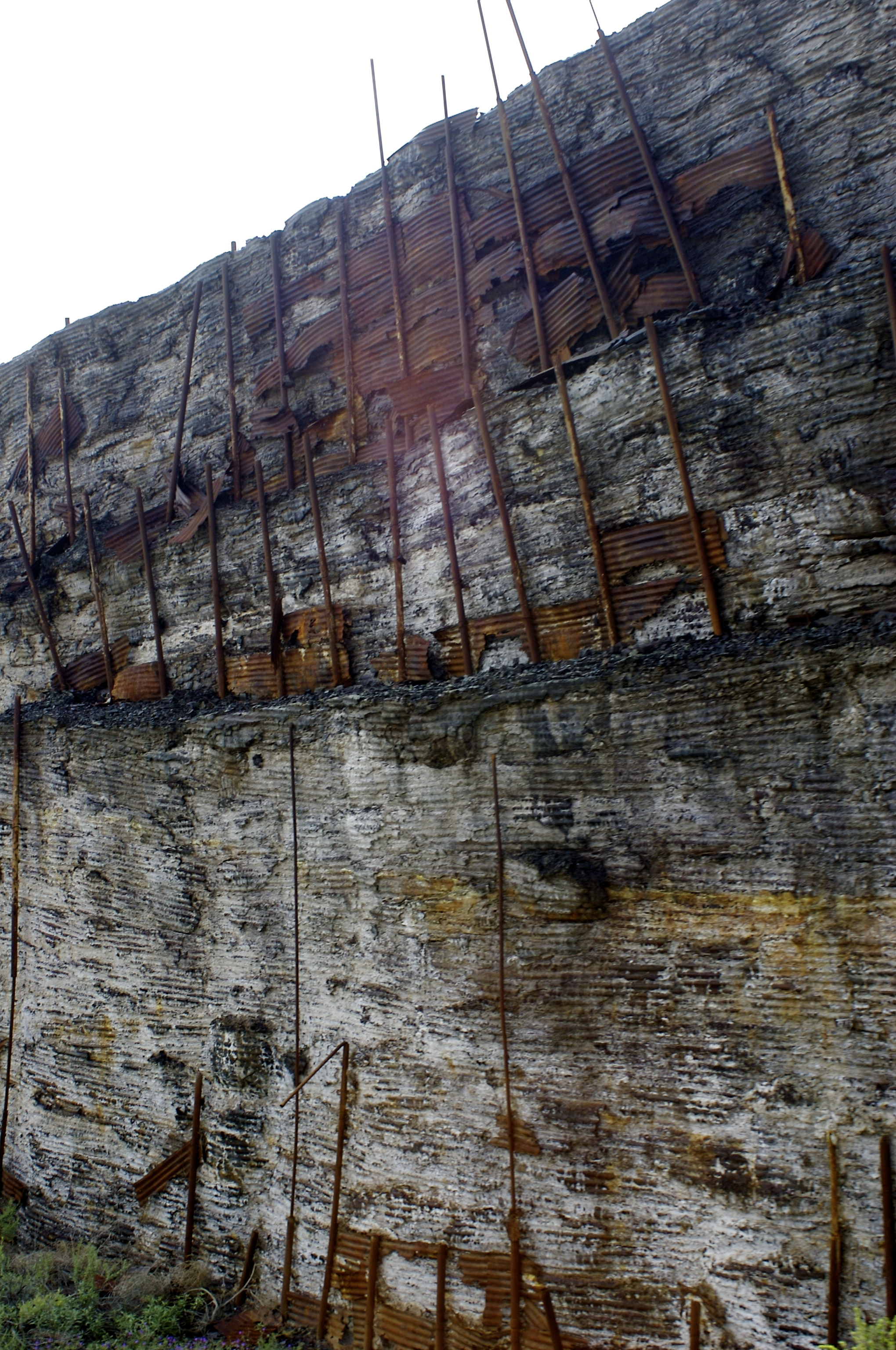 Slag heap in Clarkdale, Arizona, showing how it was held back with corrugated sheets, and them rusting away and the striations